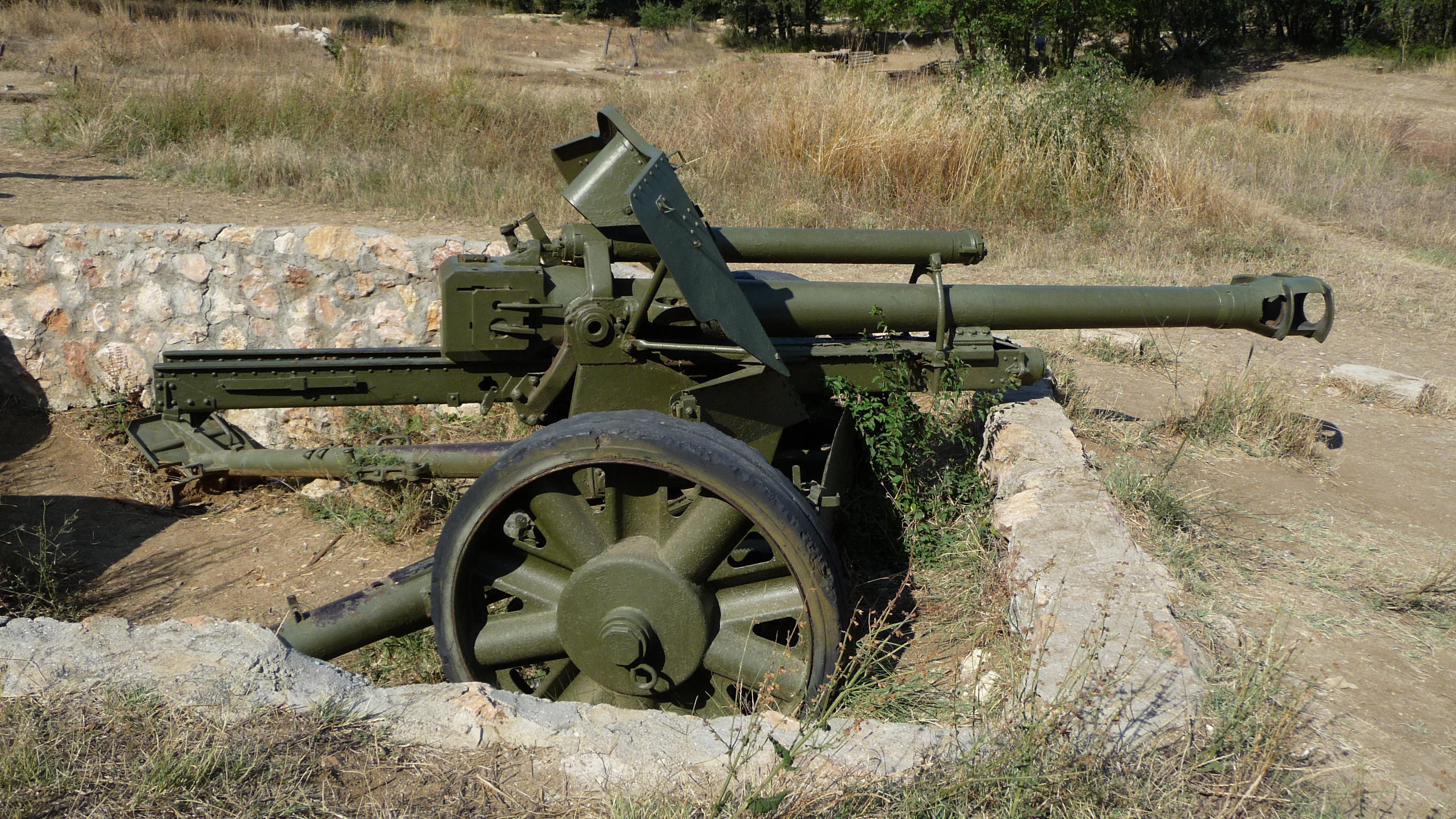 10.5 cm leFH 18/40 was a German light howitzer used in World War II. Sapun Mountain Memorial complex near Sevastopol.